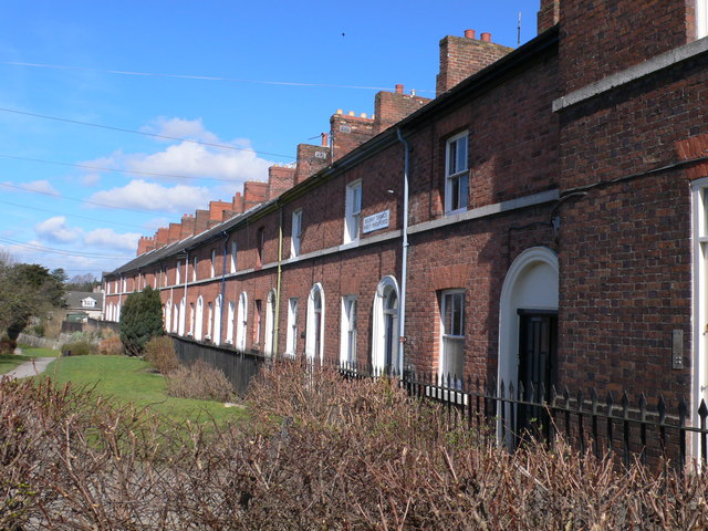 Railway Terrace, Ruthin Built when there was a railway in Ruthin, which ran in front of this terrace.